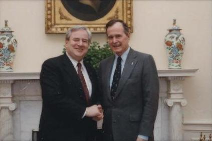 PRESIDENT BUSH MEETS WITH ECUMENICAL LEADERS IN THE ROOSEVELT ROOM. THE PRESIDENT GREETS THEM INDIVIDUALLY IN THE OVAL OFFICE. JERRY FALWELL IS AMONG THOSE PRESENT; WHITE HOUSE 1991-03-07